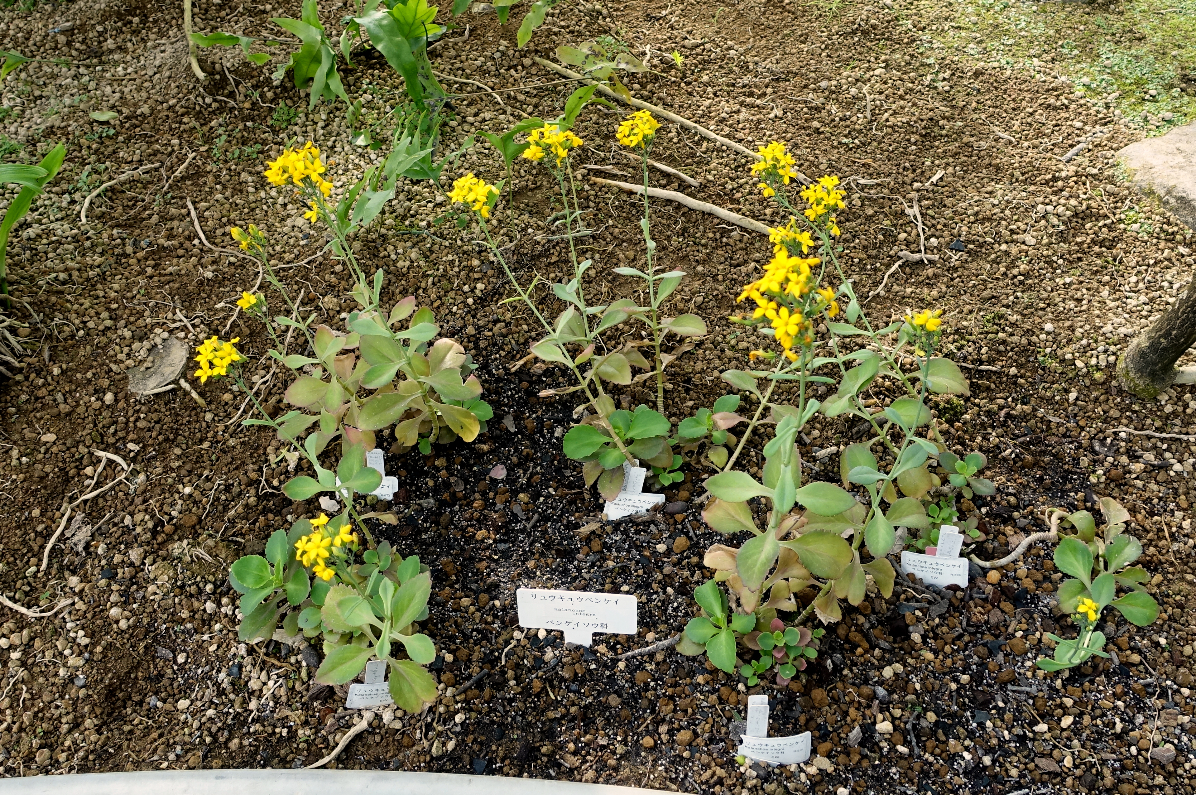 Botanical specimen in the Shinjuku Gyo-en Greenhouse - Tokyo, Japan.